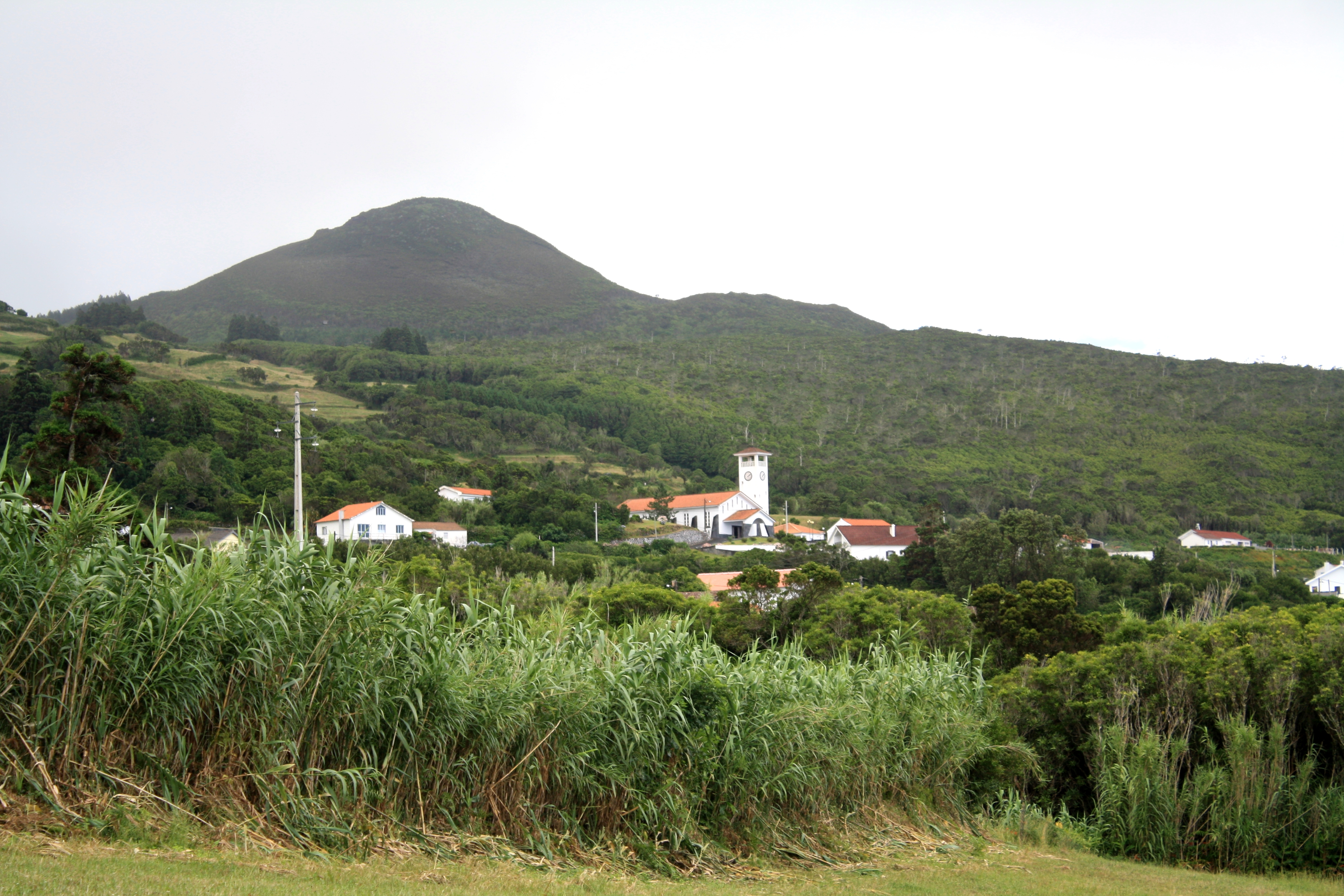 Praia do Norte with Church Igreja de Nossa Senhora das Dores, Island of Faial, Azores, Portugal